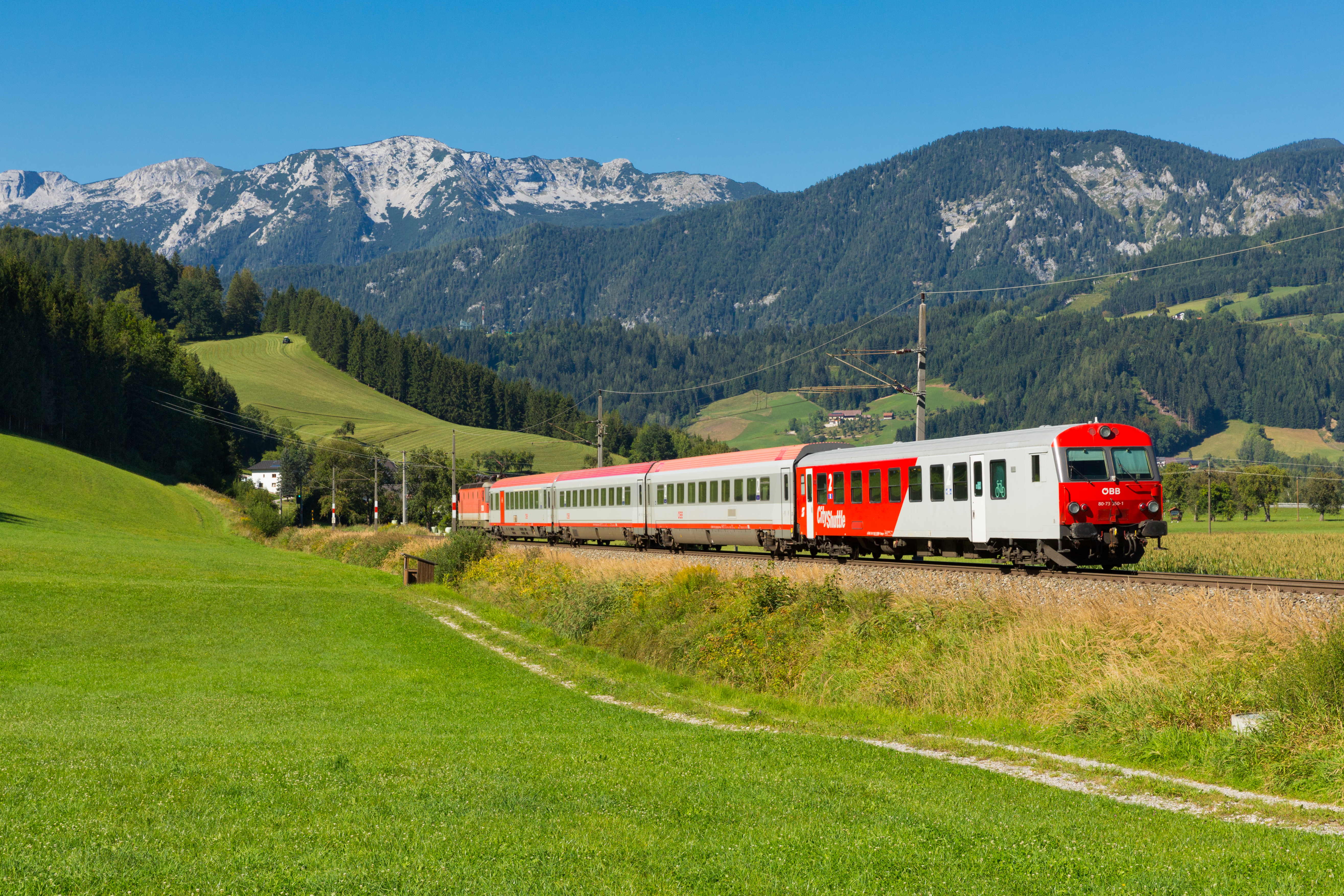 A train near Spital am Pyhrn.